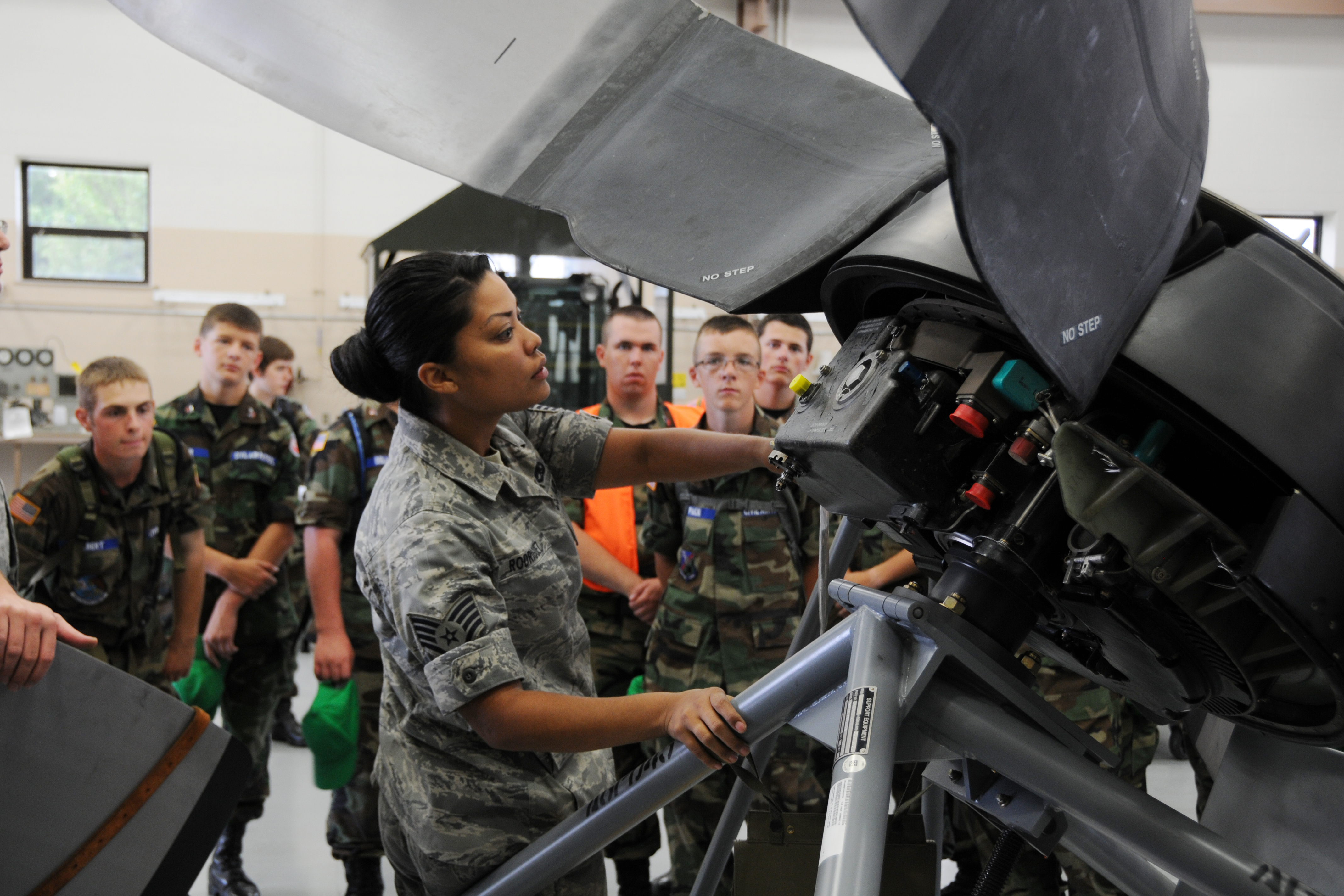 YOUNGSTOWN AIR RESERVE STATION, Ohio—Air Force Reserve Staff Sgt. Jenelle Rodriguez, an aerospace propulsion journeyman with the 910th Maintenance Squadron, explains the functioning of a C-130H Hercules propeller to Civil Air Patrol cadets here, July 31. The Civil Air Patrol toured facilities including the propulsion shop, Navy and Marine Corps Reserve Center and the 910th aerial spray shop. U.S. Air Force photo by SrA Rachel Kocin.